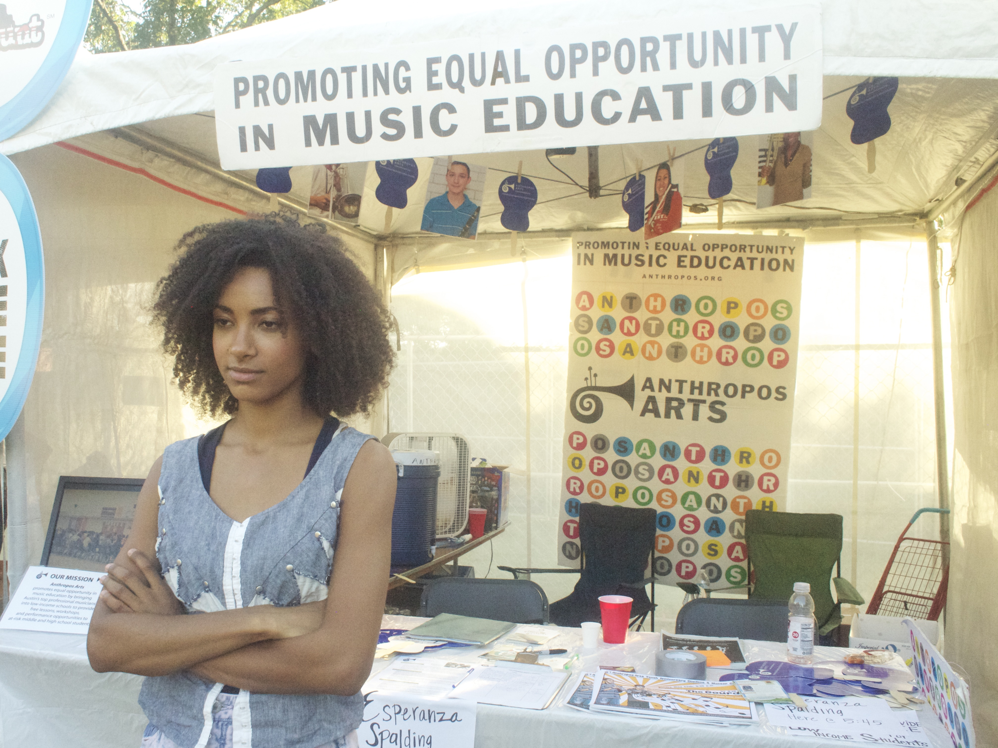 Esperanza Spalding at the Anthropos Arts booth at ACL Fest